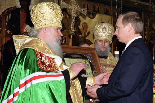 THE ANNUNCIATION CATHEDRAL IN THE KREMLIN, MOSCOW. A ceremonial prayer on the inauguration of the new President. Alexy II, Patriarch of Moscow and All Russia, presents the icon of St Alexander Nevsky to Mr Putin.